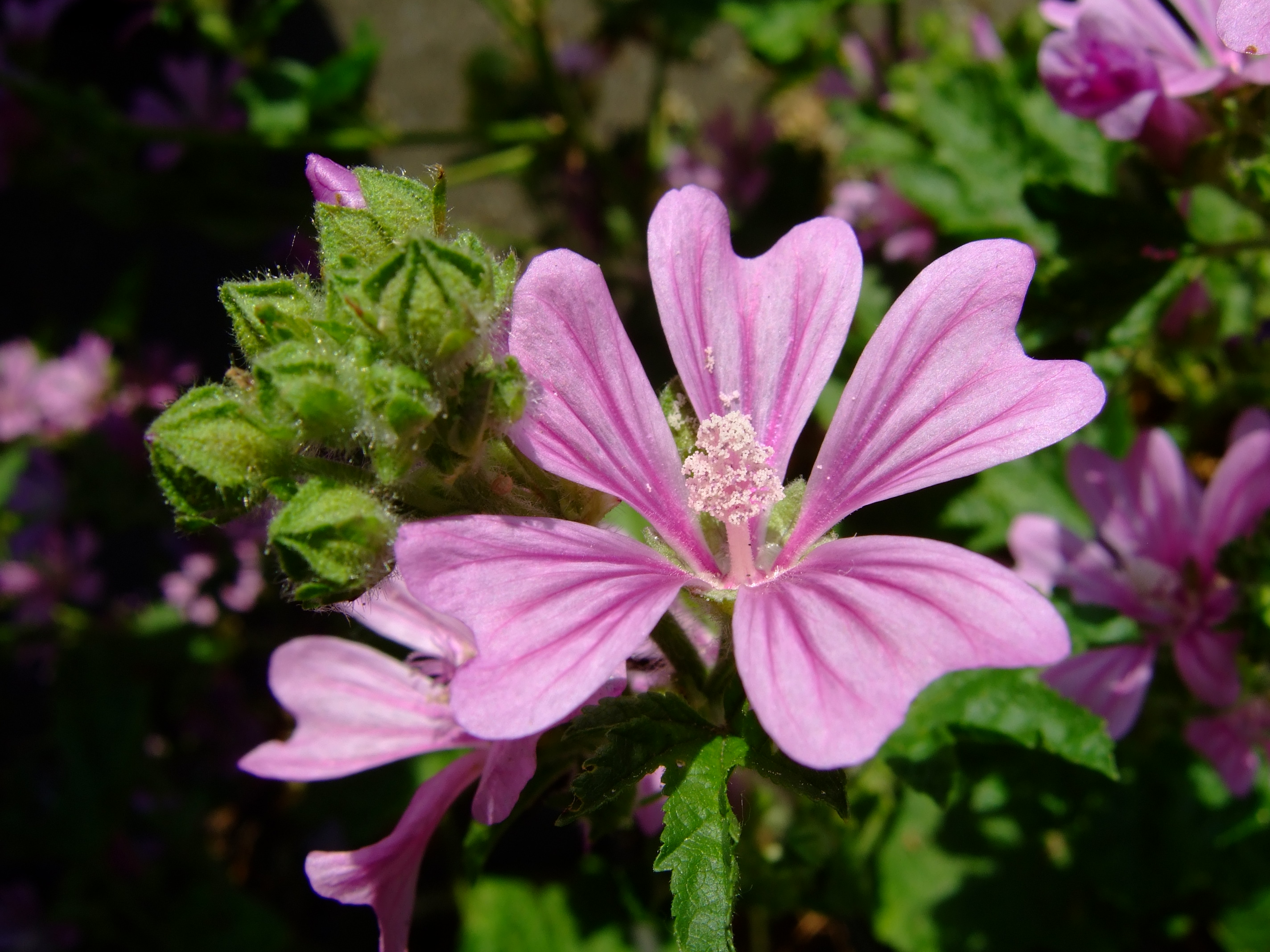 Common mallow in St. Georg Hamburg